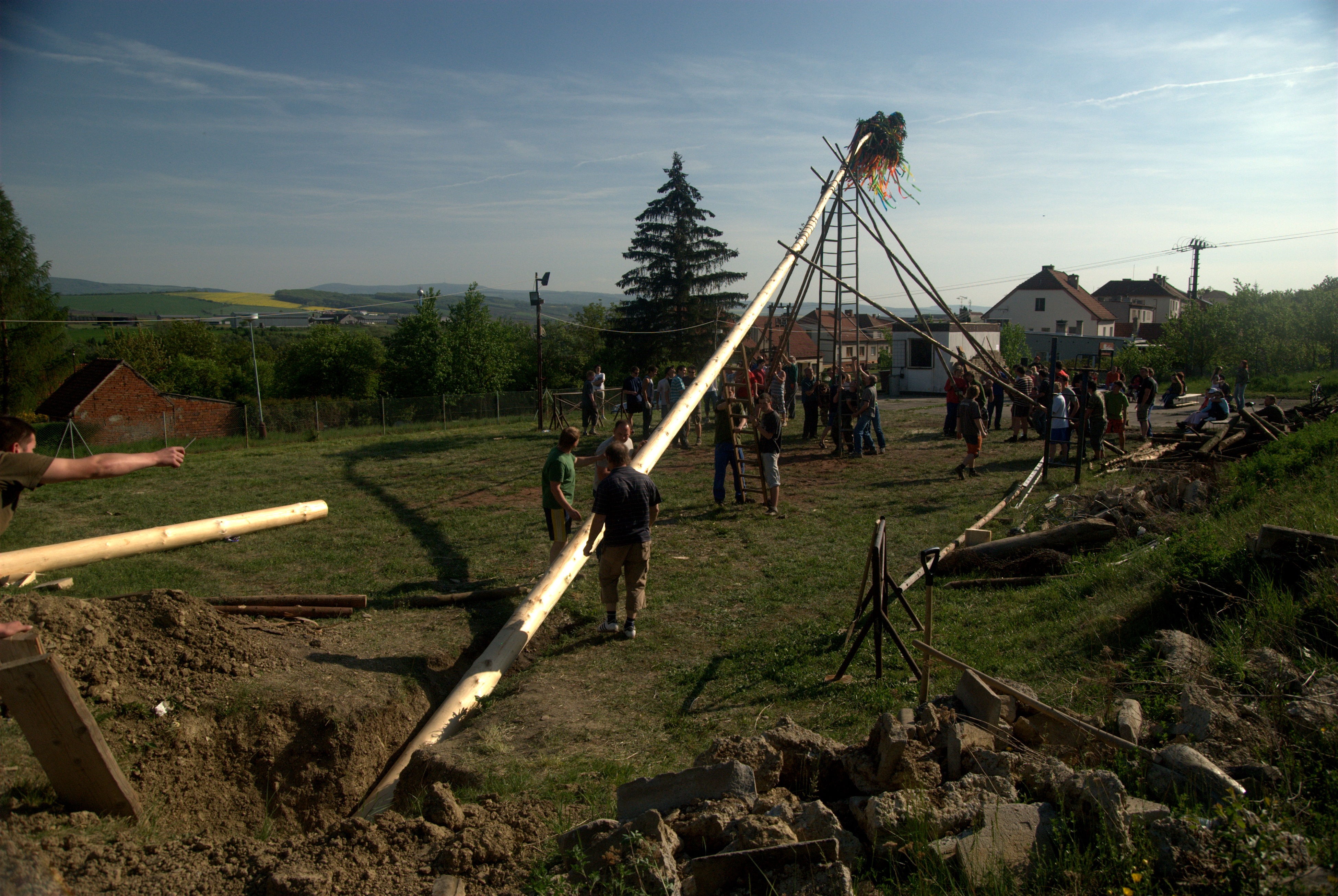 Maypole building in Czech Republic, Uhersky Brod, Ujezdec.